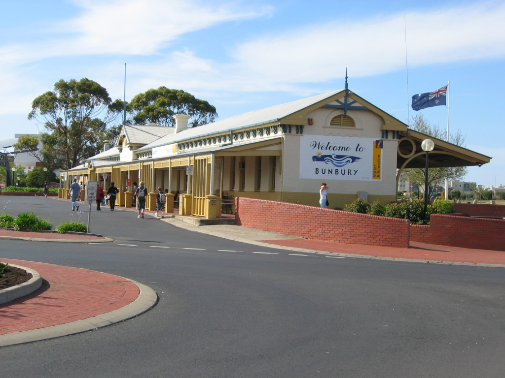 Bus station at Bunbury, Western Australia, viewed from the south.